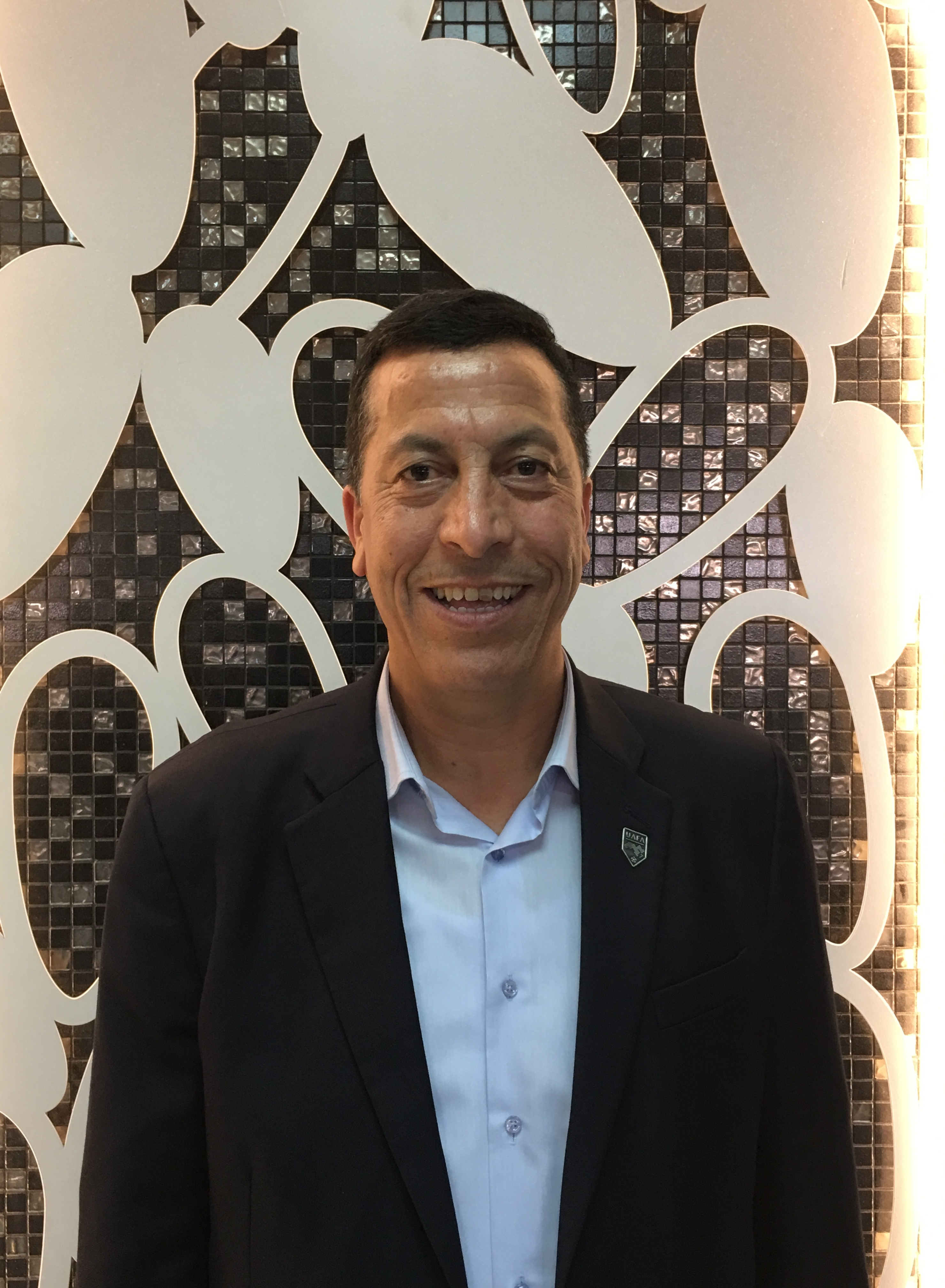 Mourad Daami Tunisian football referee. Photo taken on the 17th of Feb 2019.